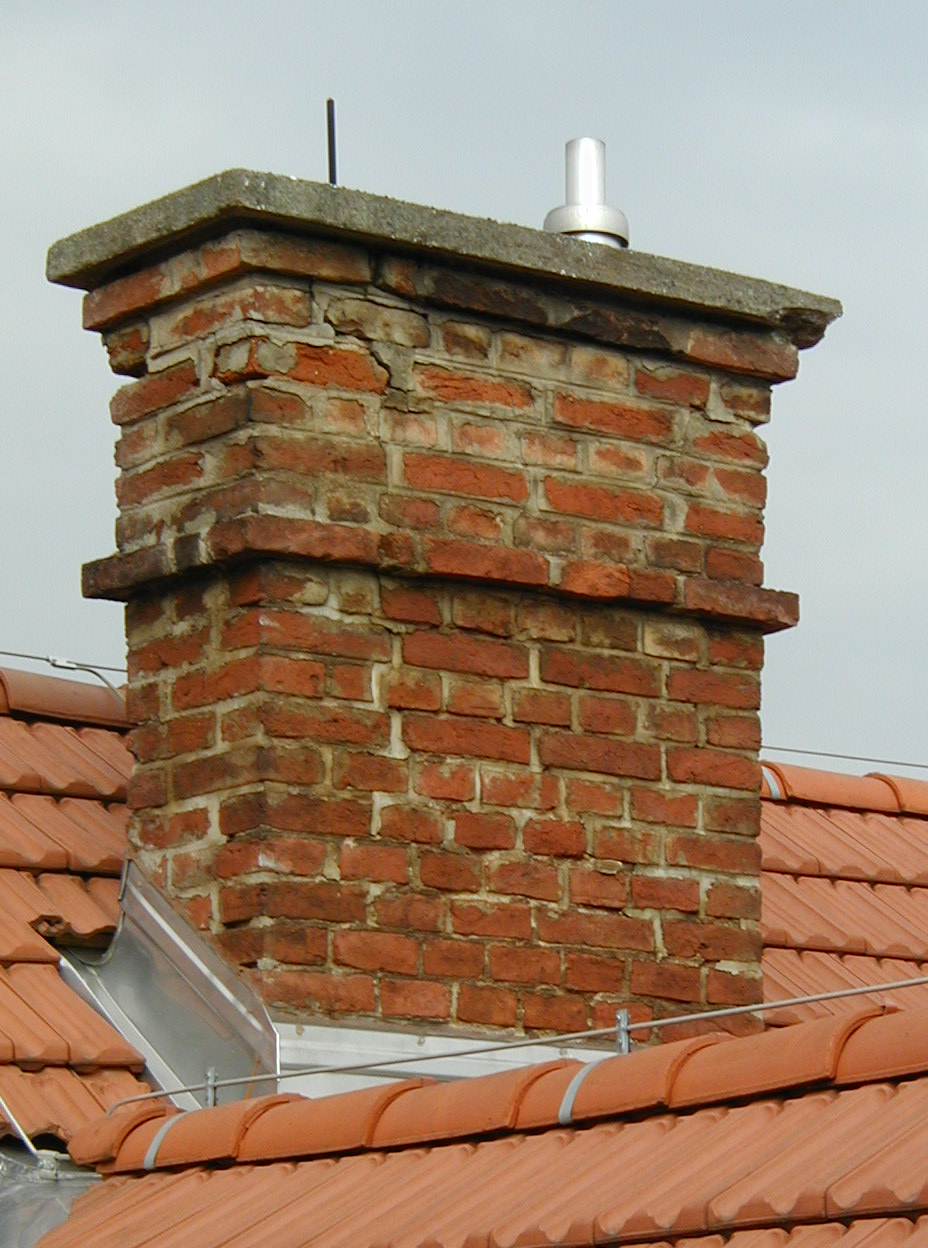 One of the chimneys of the house Heinrichstraße 57 in Graz (Austria) on 19 Oct 2003 before it was replaced by a new one. Photo taken and uploaded by Dr. Marcus Gossler.